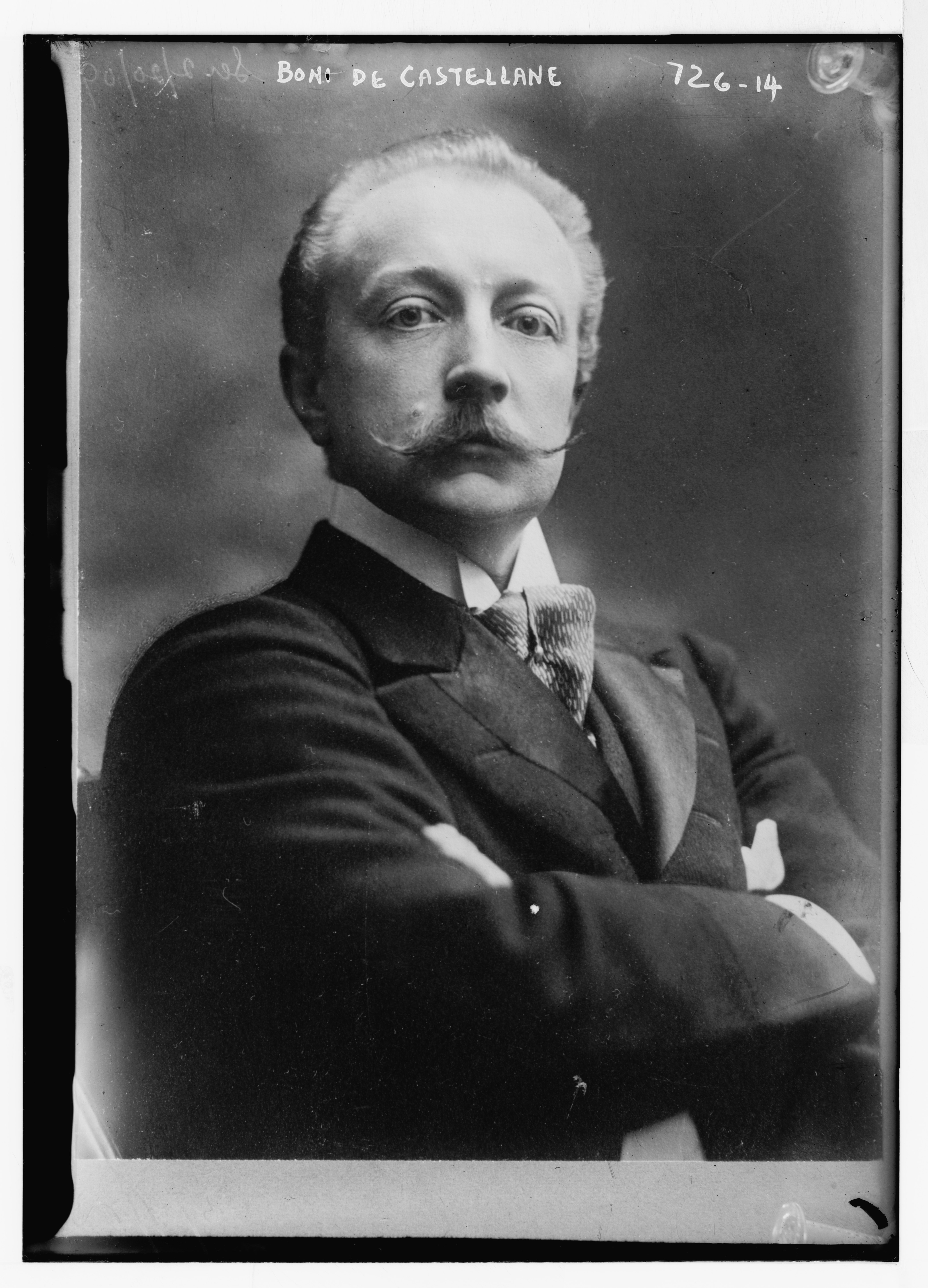 Title: Boni de Castellane Abstract/medium: 1 negative : glass ; 5 x 7 in. or smaller.